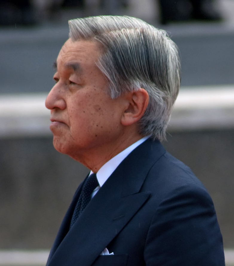 Emperor Akihito and Gene Castagnetti, Director of the National Memorial Cemetery of the Pacific, shared a moment of silence at the National Memorial Cemetery of the Pacific in Honolulu City, Hawaii State on July 15, 2009.